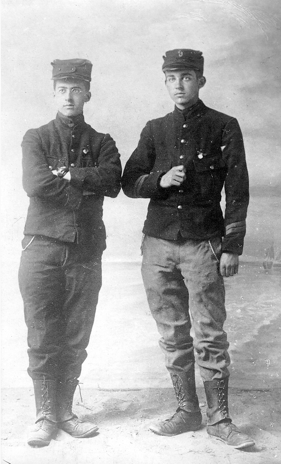 The brothers Georges and Jacques Lemaître, voluntarily enlisted on 7 August 1914 (archive of the family Drèze-Poirier)